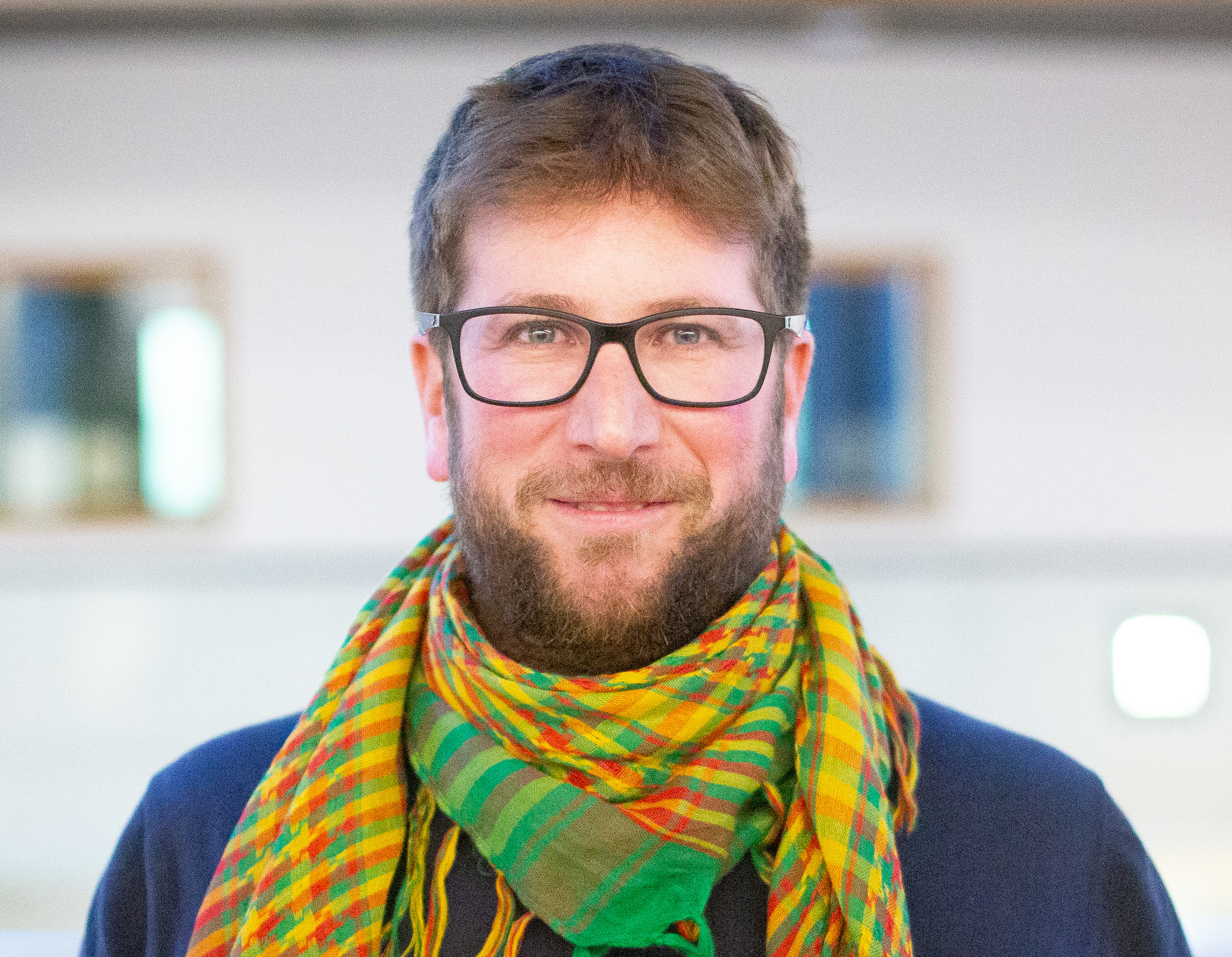 This week in #Eplenary our MEPs showed their solidarity with the Kurdish people #Rise4Rojava